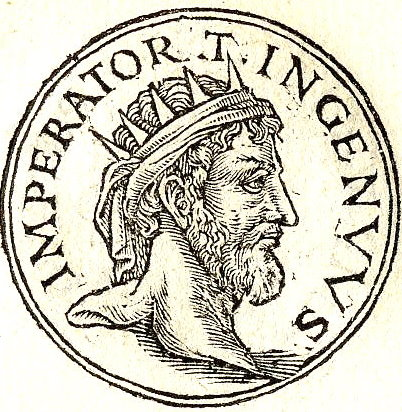 Ingenuus was a Roman military commander who held a senior military command in Pannonia.